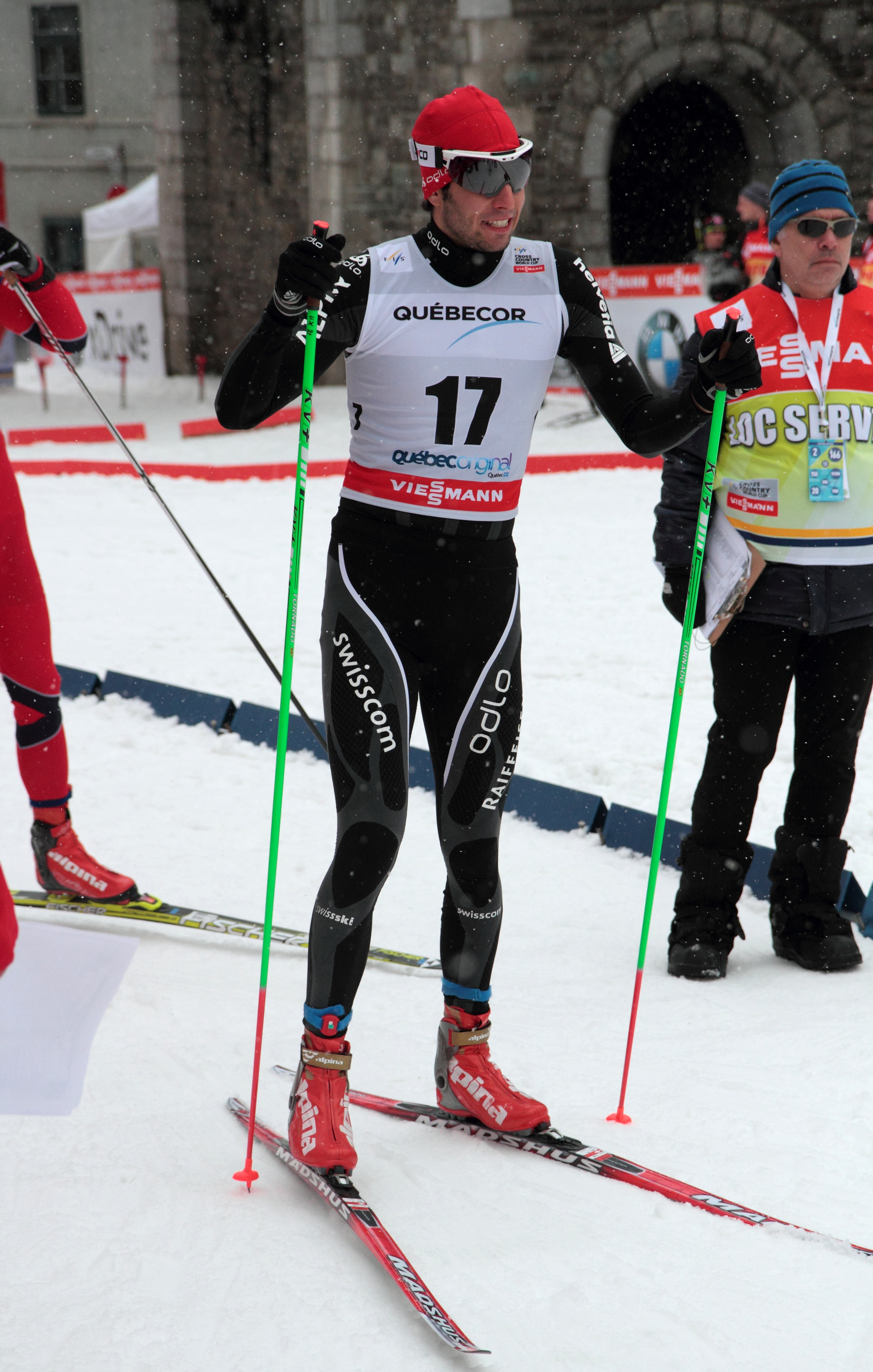 Eligius Tambornino, FIS Cross-Country World Cup 2012, Quebec, Canada.